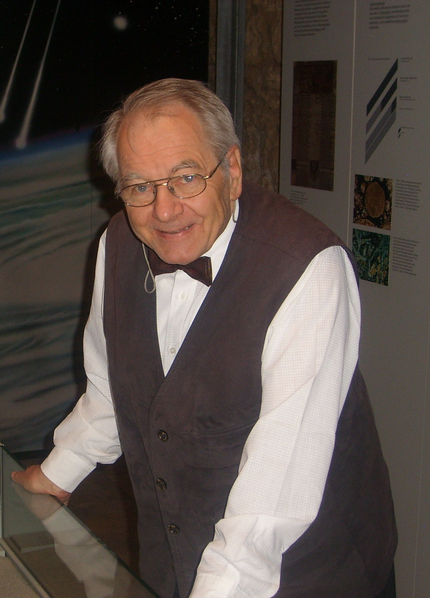 Picture of Jiří Březina, born April 6, 1933 in Prague, Czechoslovakia, is a German scientist of Czech origin, a professor of Geology, and an expert in Sand Texture Sedimentology.